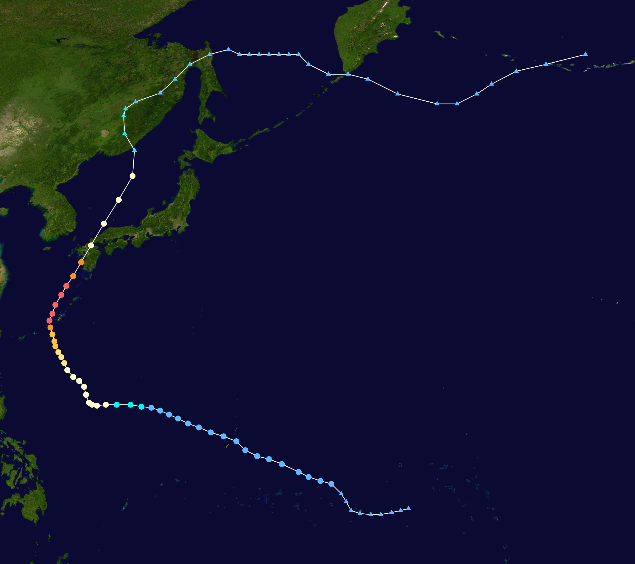 Track map of Typhoon Jean of the 1965 Pacific typhoon season. The points show the location of the storm at 6-hour intervals. The colour represents the storm's maximum sustained wind speeds as classified in the Saffir-Simpson Hurricane Scale (see below), and the shape of the data points represent the nature of the storm, according to the legend below. Saffir–Simpson hurricane wind scale Tropical depression≤38 mph≤62 km/h Category 3111–129 mph178–208 km/h Tropical storm39–73 mph63–118 km/h Category 4130–156 mph209–251 km/h Category 174–95 mph119–153 km/h Category 5≥157 mph≥252 km/h Category 296–110 mph154–177 km/h Unknown Storm typeTropical cycloneSubtropical cycloneExtratropical cyclone / Remnant low / Tropical disturbance